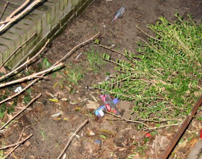 Litter.